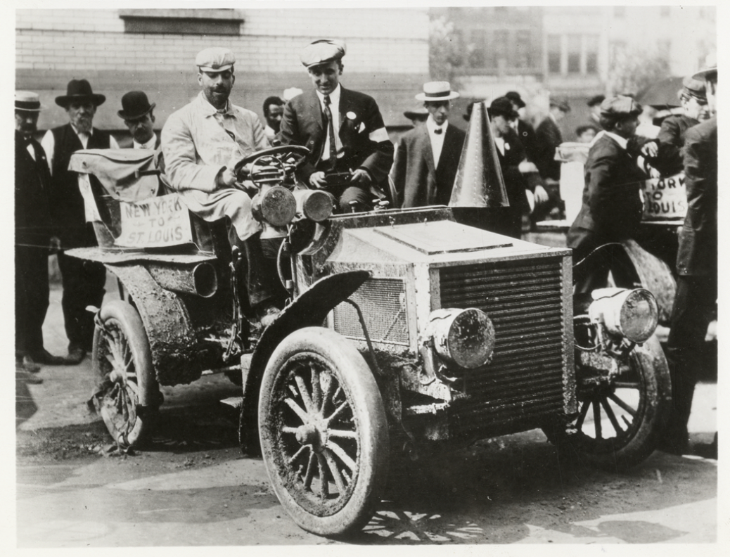 Augustus Post driving his White Steamer in 1905 Glidden Auto Tour. Post was an original founder of the American Automobile Association.